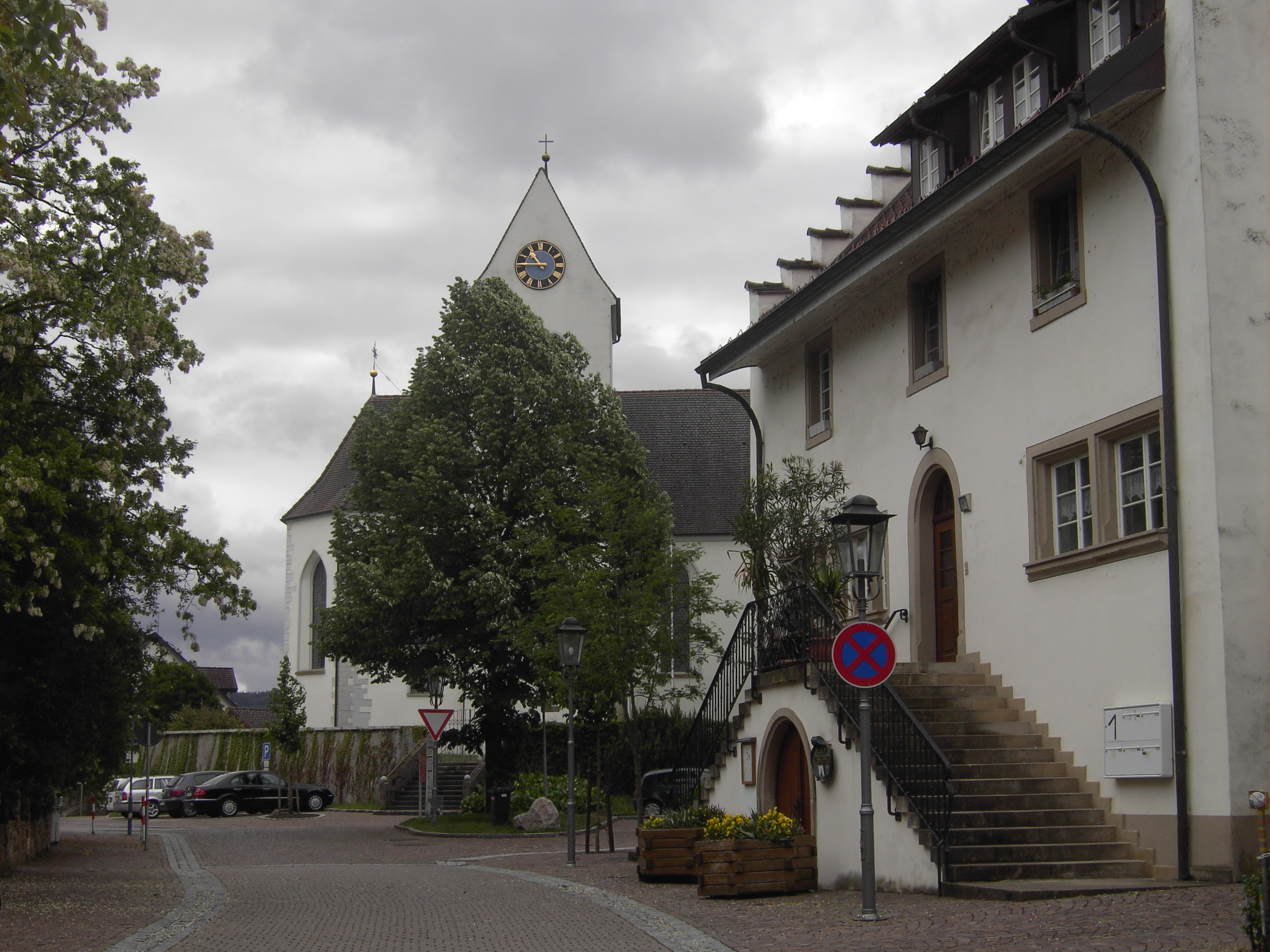 Küssaberg-Rheinheim, Germany, roman-cath. Church